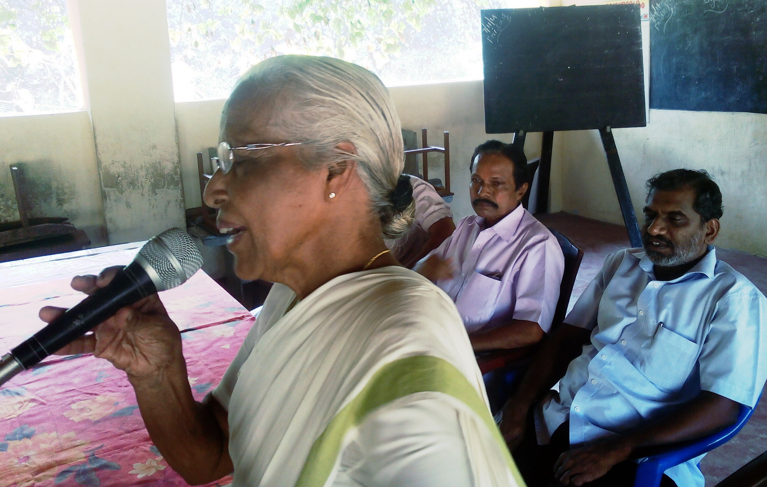 P. K. Medini, the renowned revolutionary singer, stage artist, freedom fighter of Kerala, India